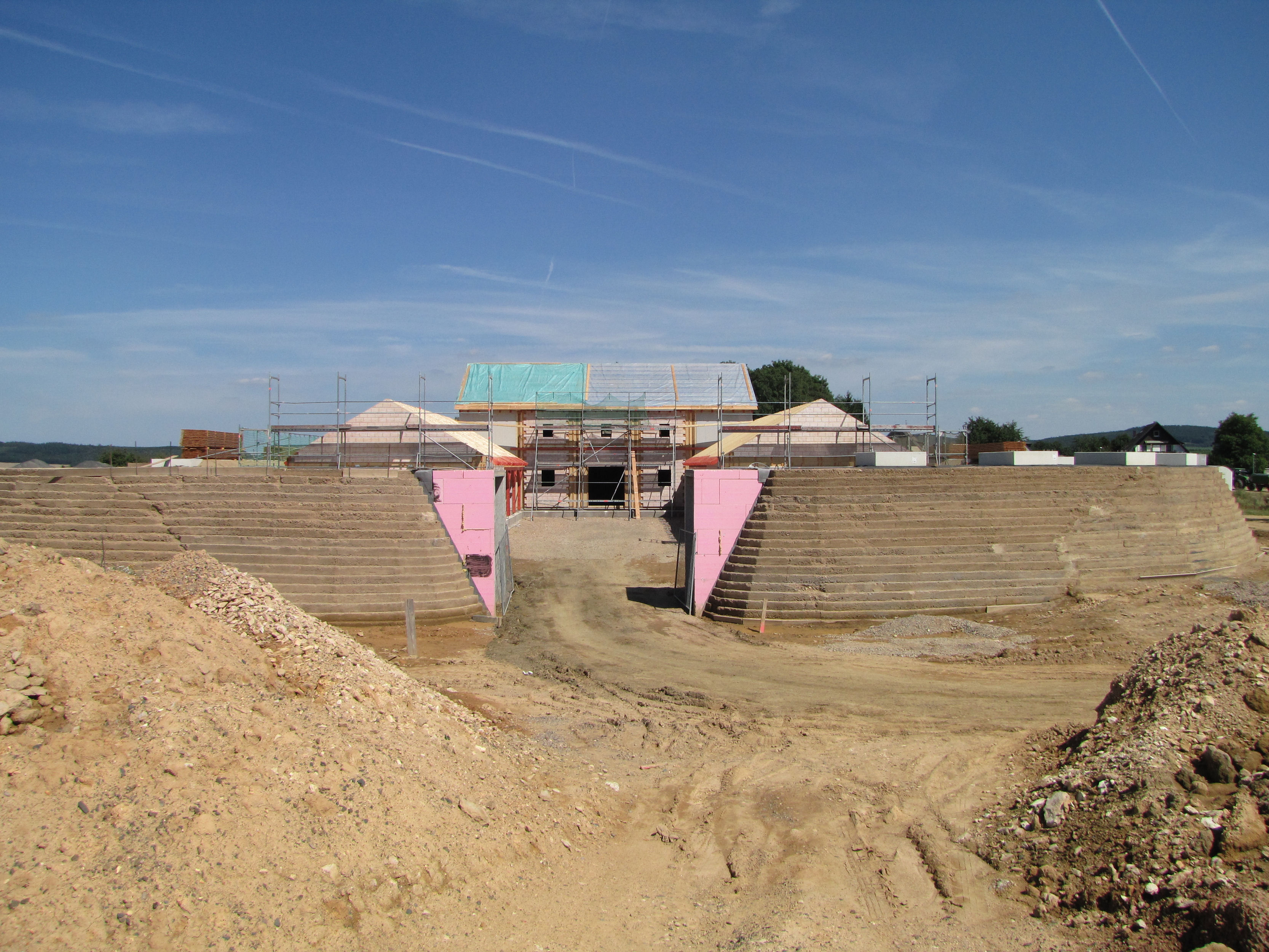 Reconstruction of the roman castrum in Pohl